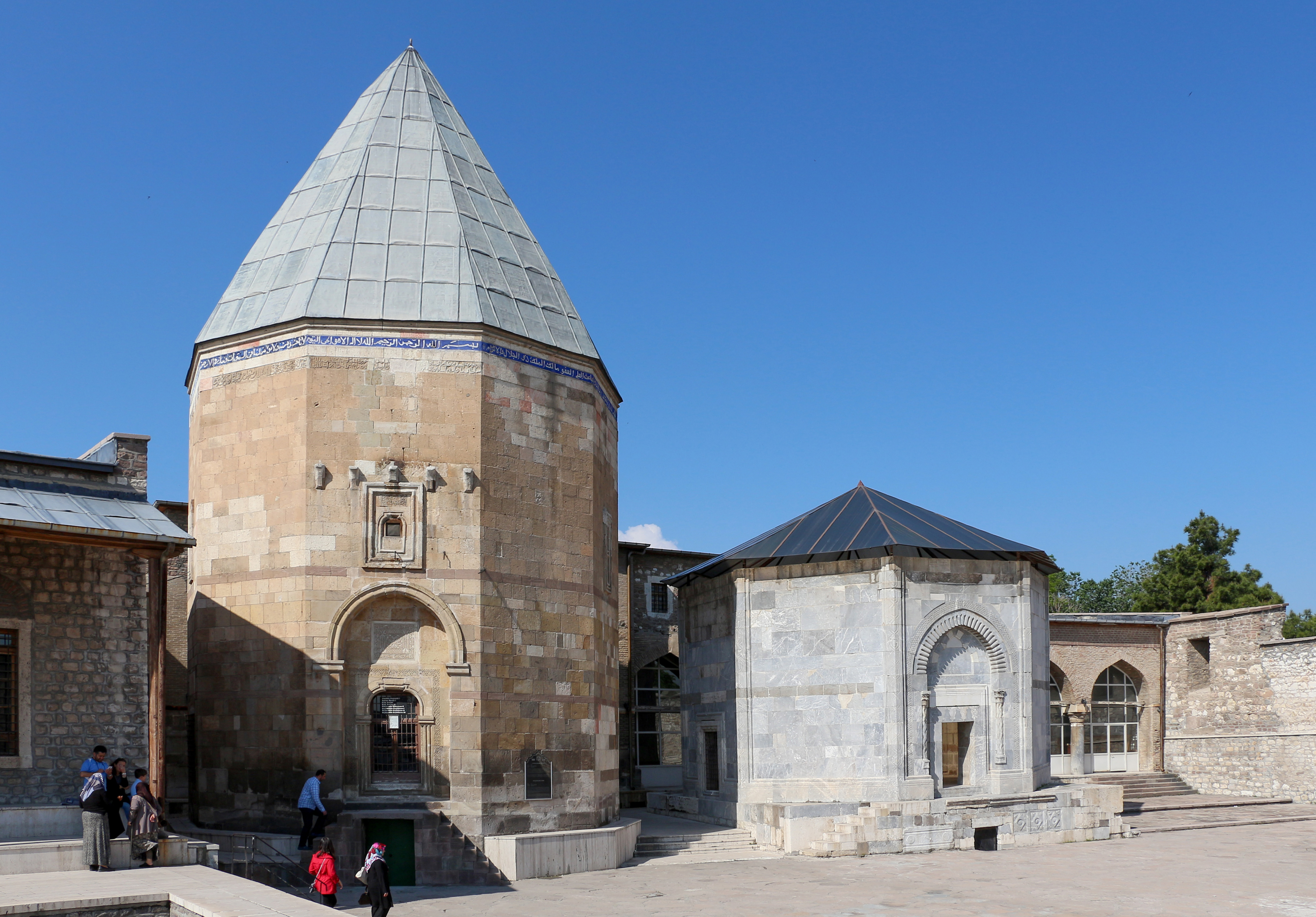 Türbes of the Alâeddin Mosque, Konya, Turkey